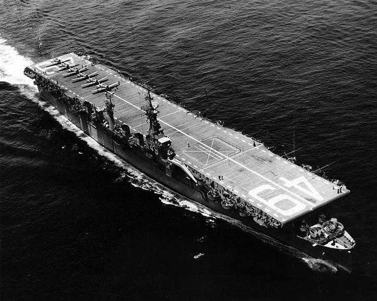 The U.S. Navy light aircraft carrier USS Wright (CVL-49) operating on training duty, with six North American SNJ Texan aircraft on deck lined up for takeoff, circa the later 1940s or early 1950s. The photo's original caption reads "The stage is set for the final scene of Basic Training: the flight students will qualify six carrier landings in SNJ 'Texans' and the curtain will descend on the graduation finale."